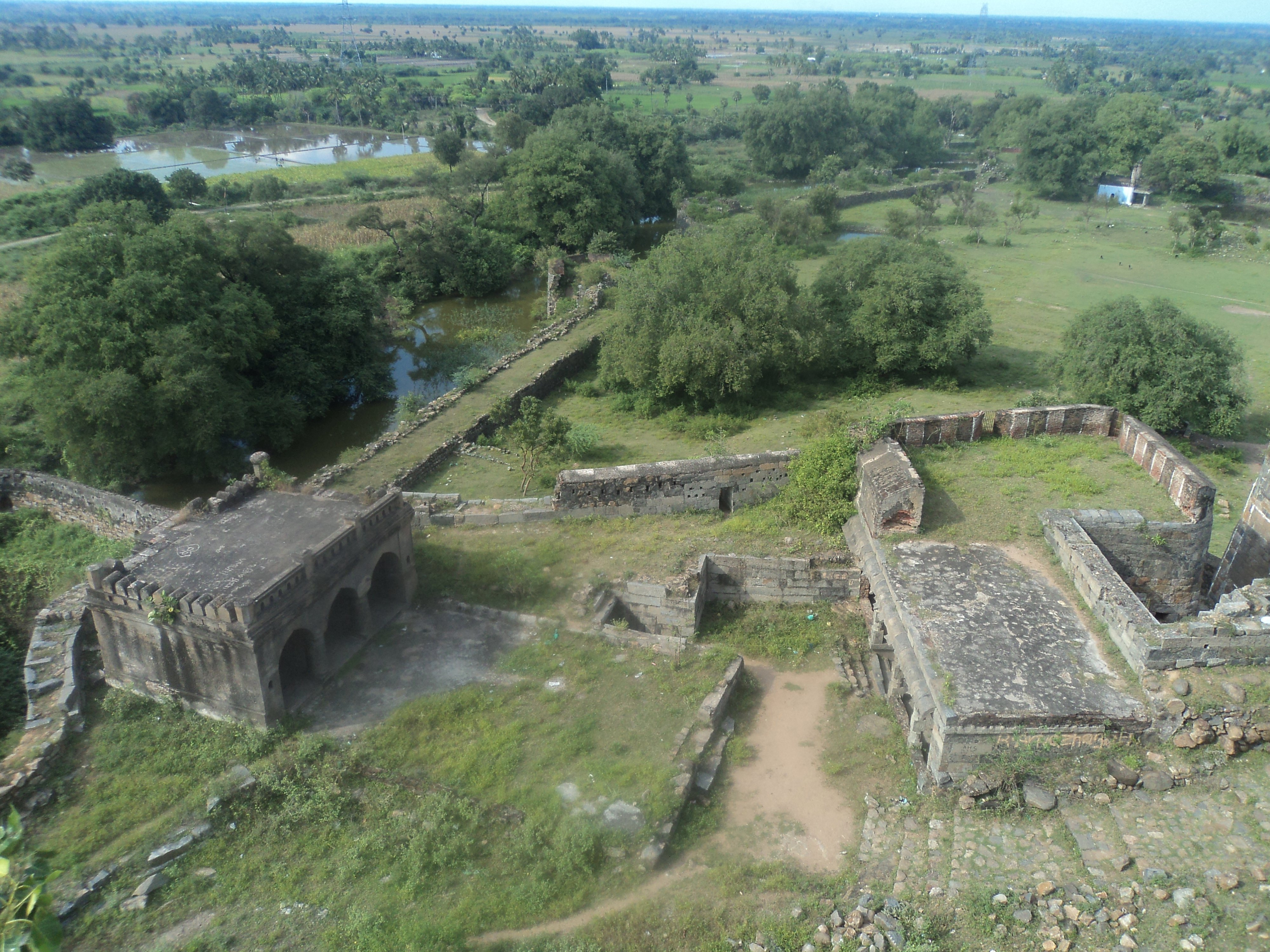 see the Description